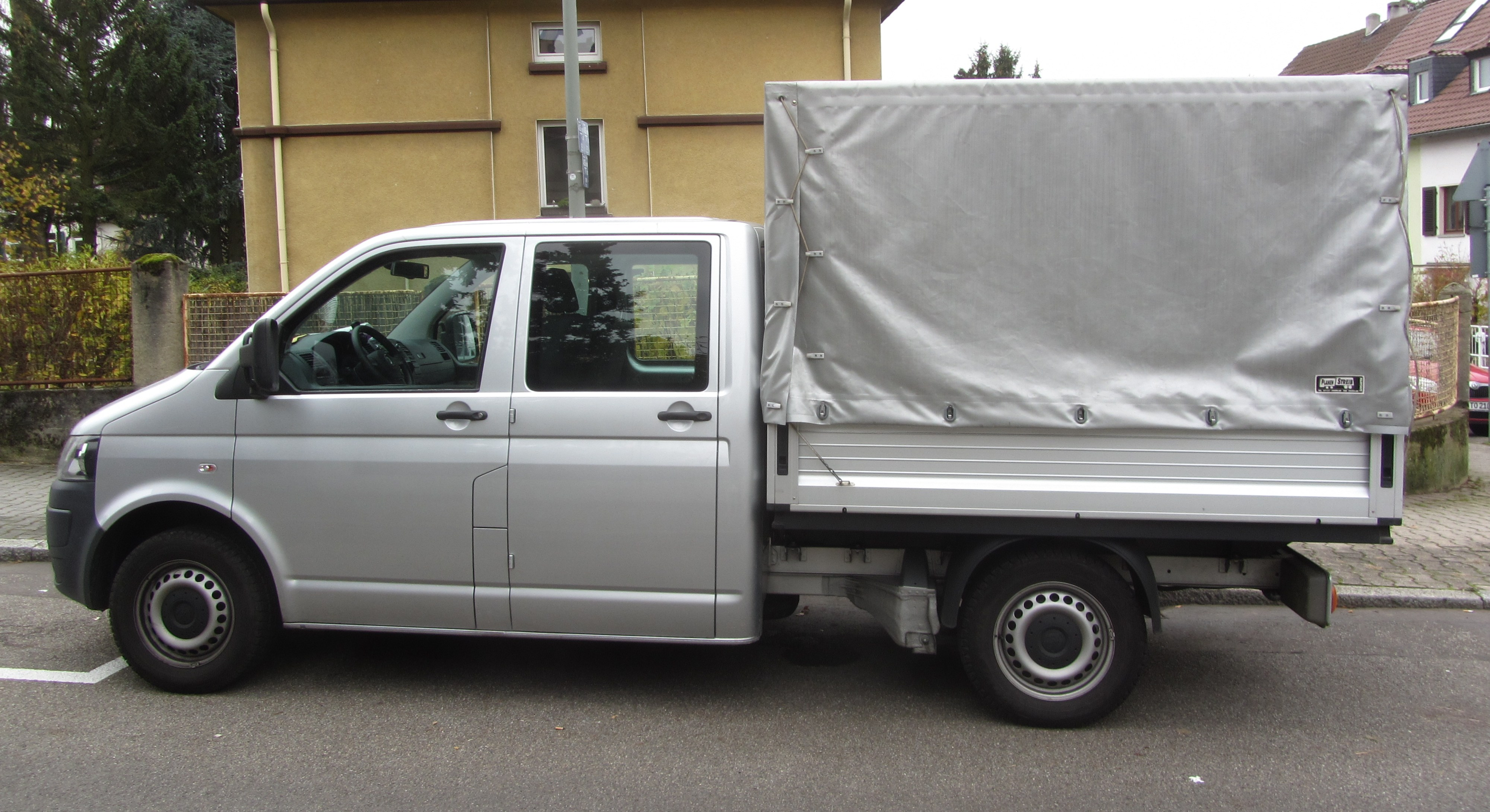 VW Transporter T5 double cab with regular truck bed and tarpaulin cover, side view left